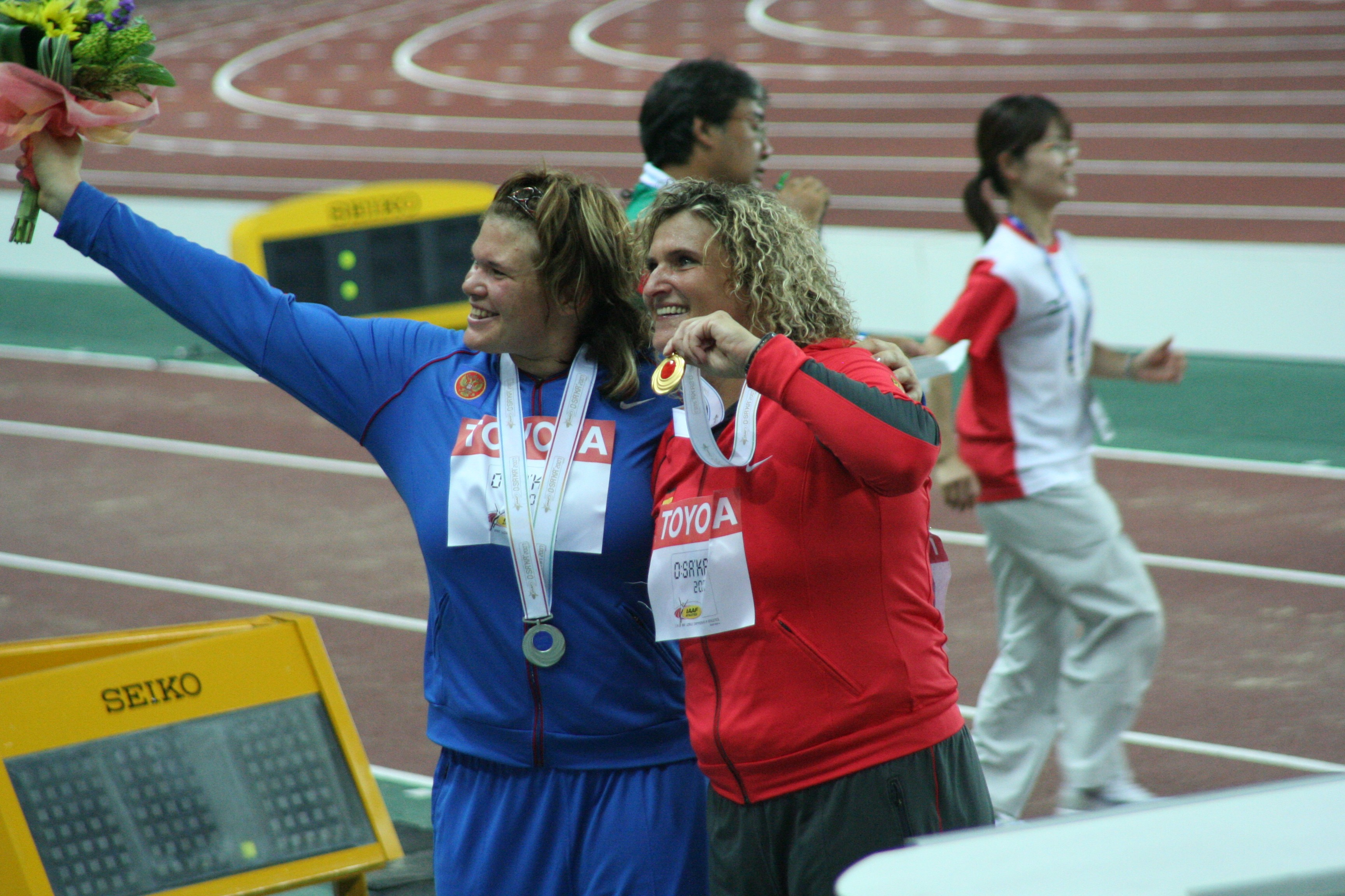 World Athletics Championships 2007 in Osaka - Discus throwers Franka Dietzsch and Darya Pishchalnikova showing their medals